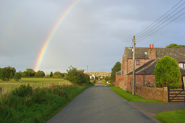 Road and house at Catterlen Just above the junction with the B5305 beyond which further houses can be seen.